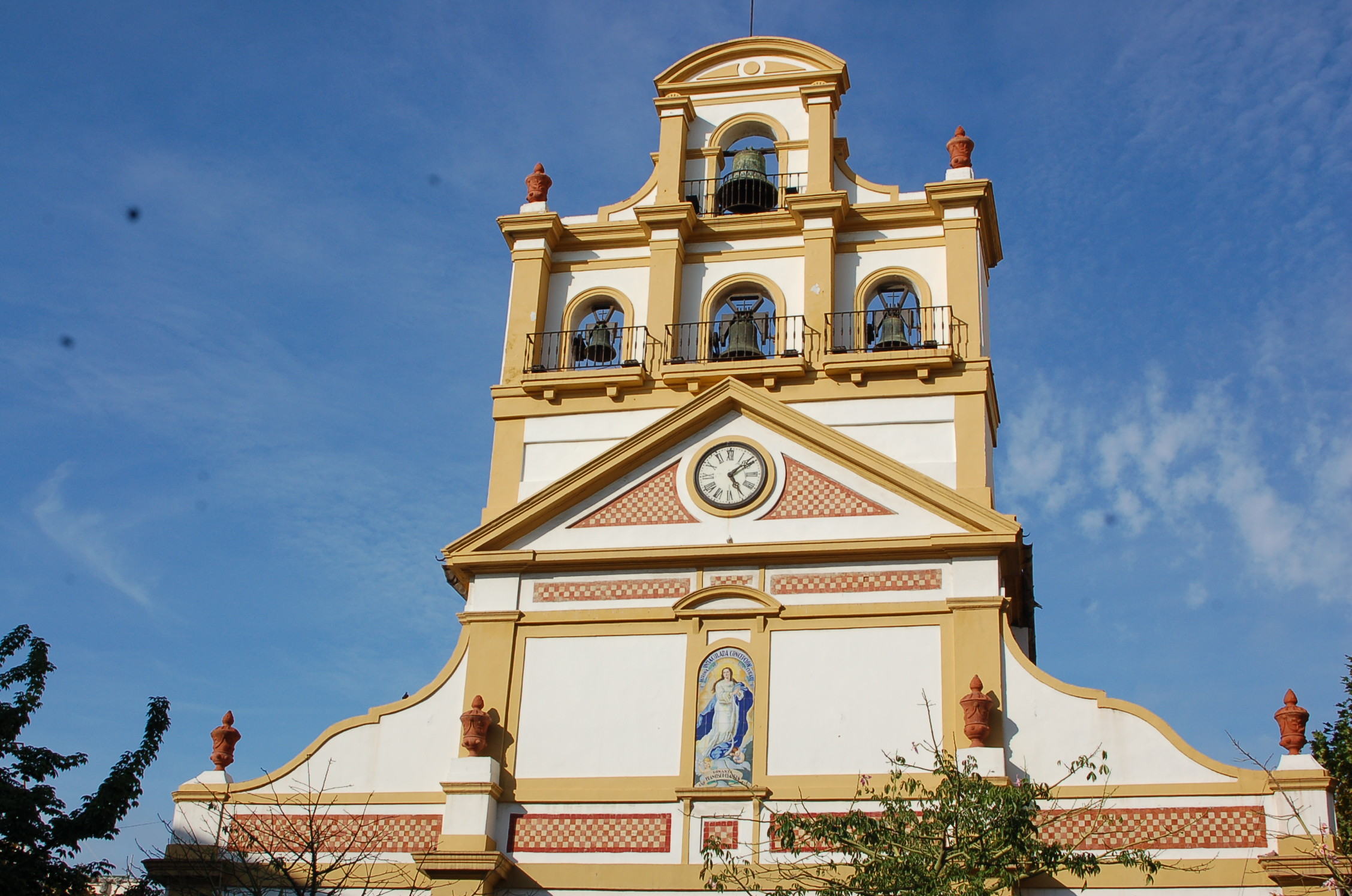 The Parish Church of the Immaculate Conception is the main church in La Linea de la Concepcion, a border town on the isthmus that links the Rock of Gibraltar with the mainland. The church was built in the 19th century in a Spanish colonial style, and was declared a shrine in 2005.